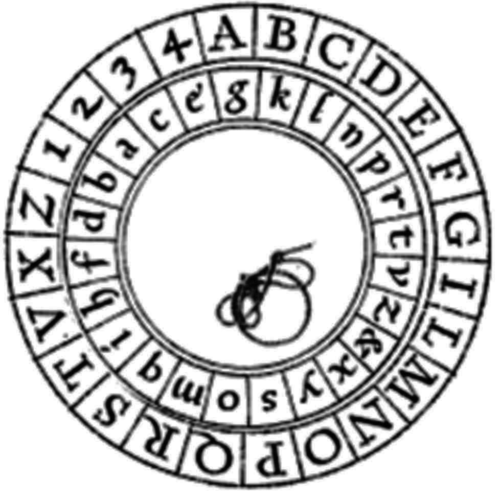 Image of an Alberti Cipher Disk